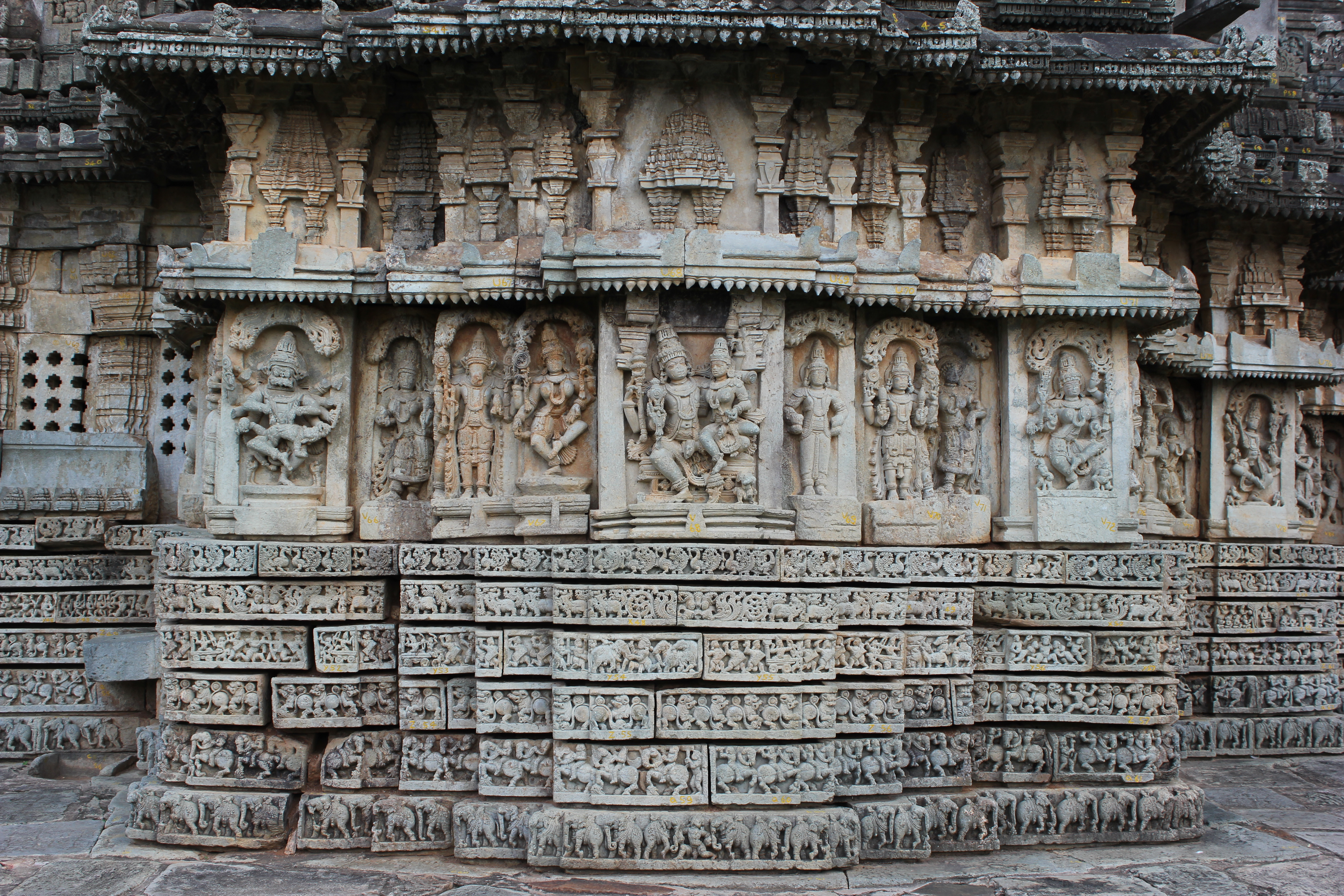 The Mallikarjuna temple is located in Basaralu, Mandya district, Karnataka state, India. The temple was built around 1234 A.D. during the rule of the Hoysala Empire King Vira Narasimha II.